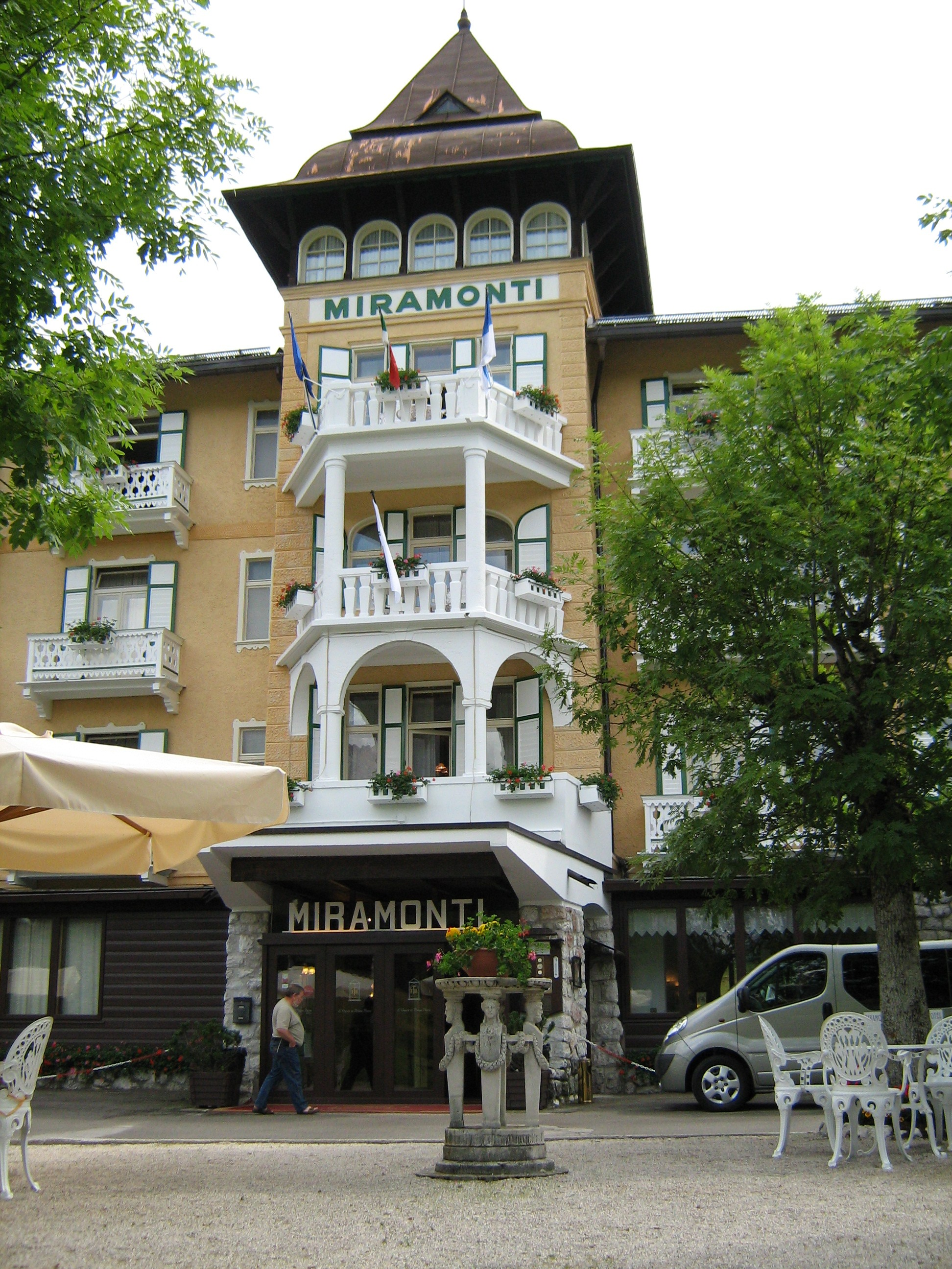 The famous (from James Bond-film a.o.) Hotel Miramonti in Cortina d'Ampresso in the Dolomites, Italiy. August 9, 2012.